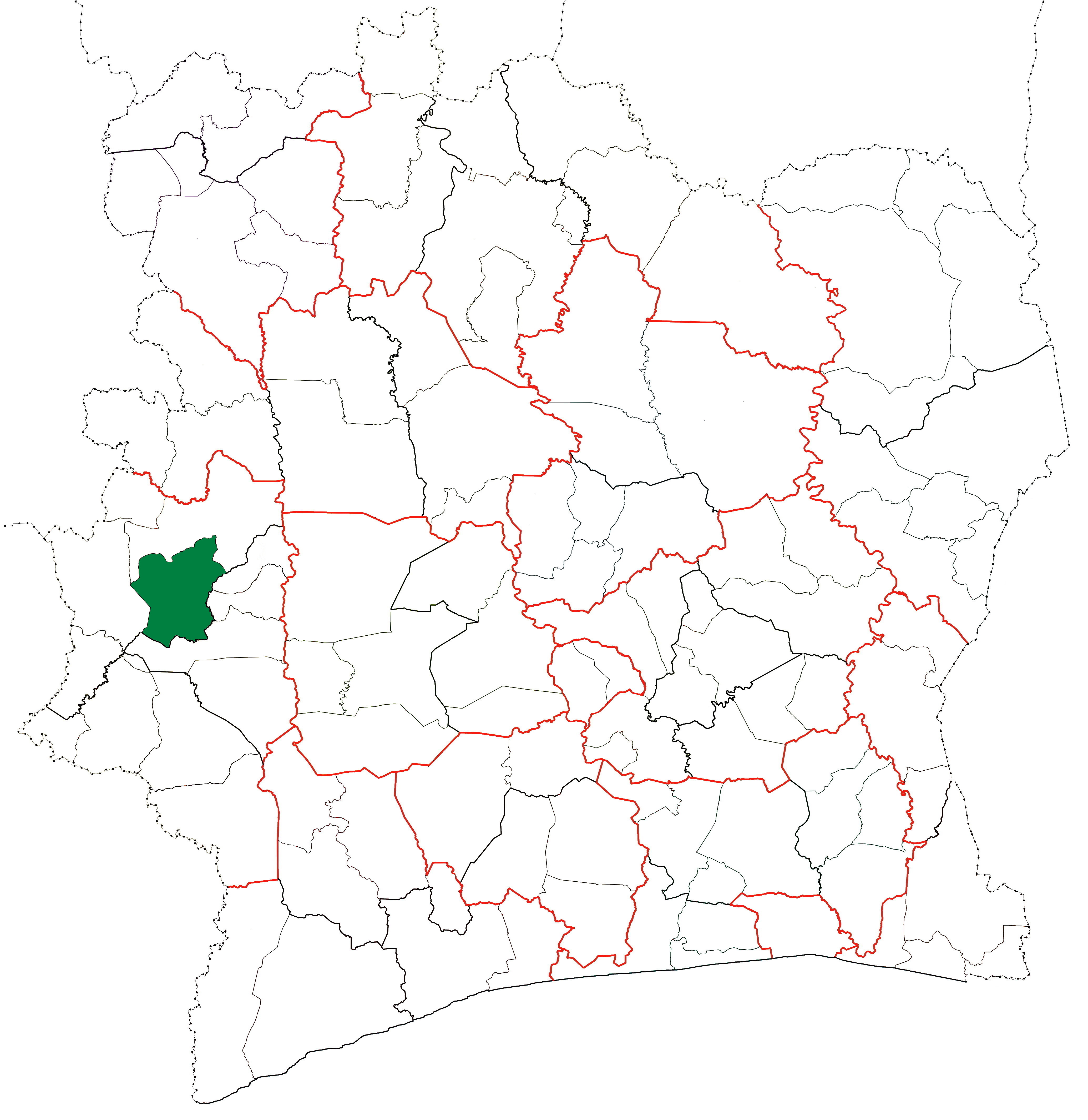 Locator map for Man Department in Côte d'Ivoire.